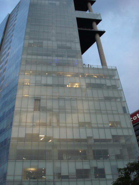 Reforma 115 Tower in Mexico City.